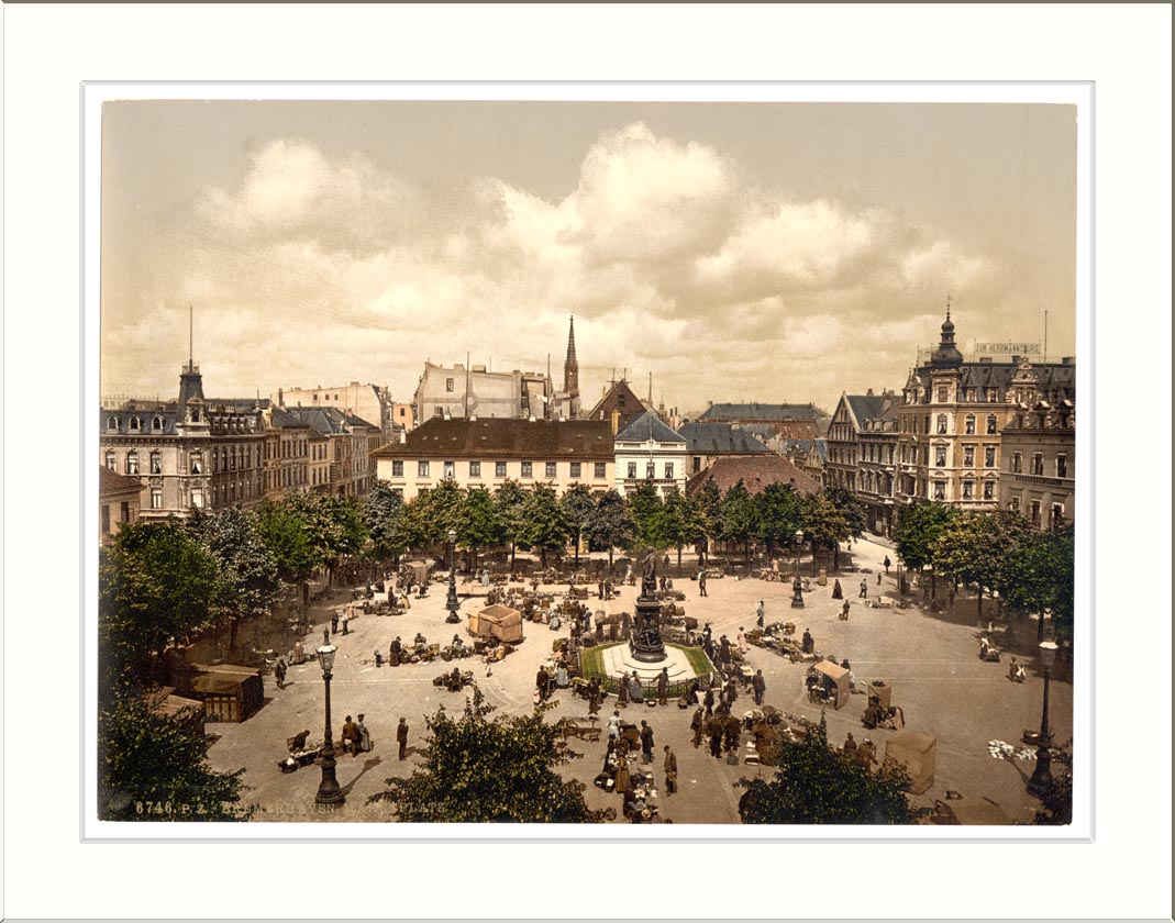 Market of Bremerhaven close to Bremen, Germany